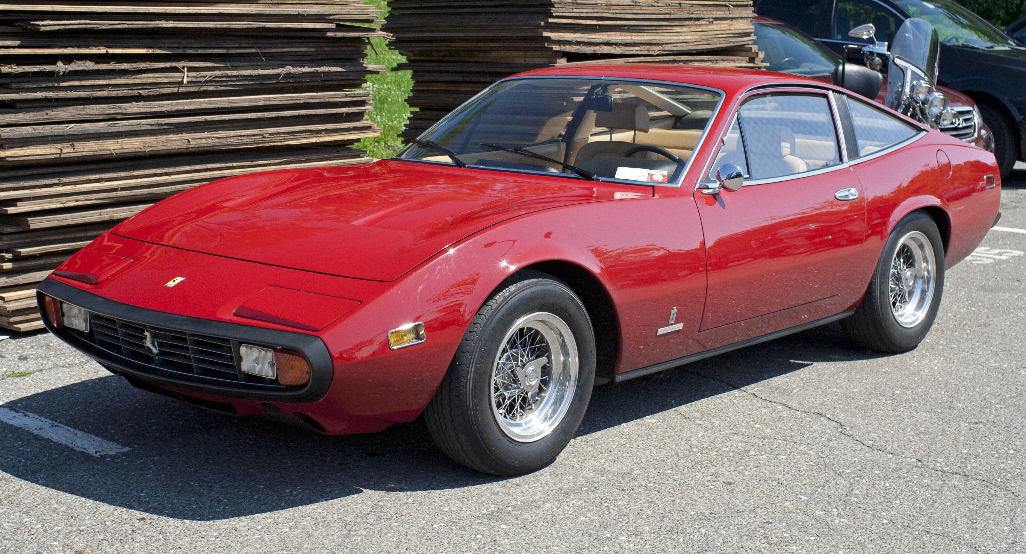 1972 Ferrari 365 GTC/4, unusual in red. Taken in the parking lot of the 2012 Greenwich Concours d'Elegance